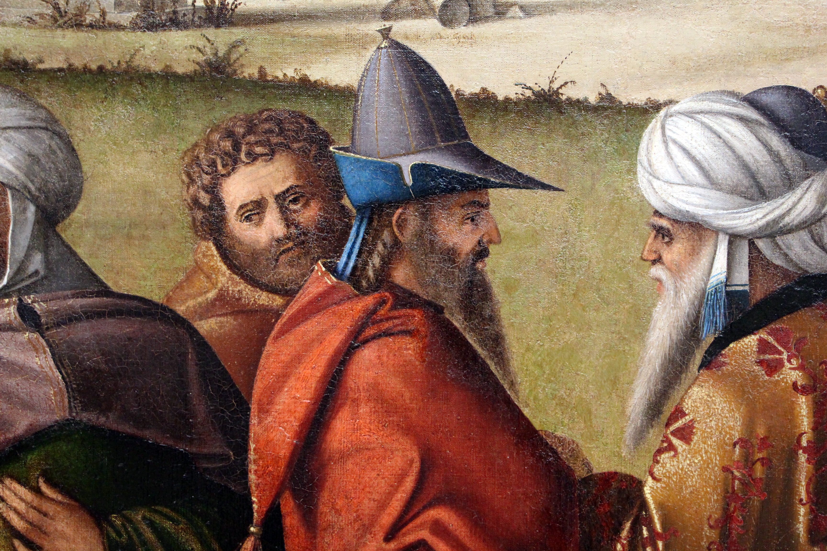 Italian Renaissance paintings in the Gemäldegalerie, Berlin